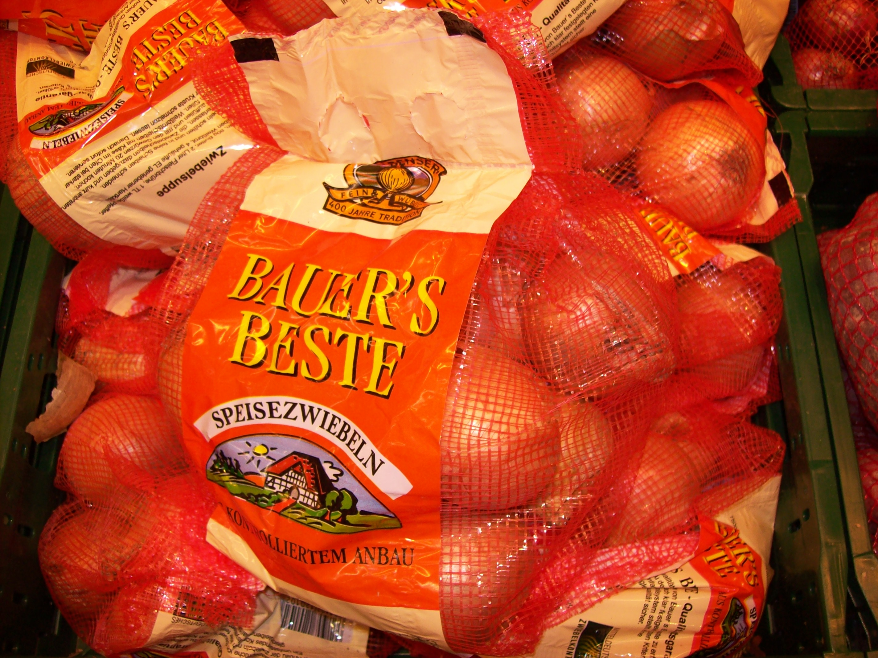 a girsack filled with onions